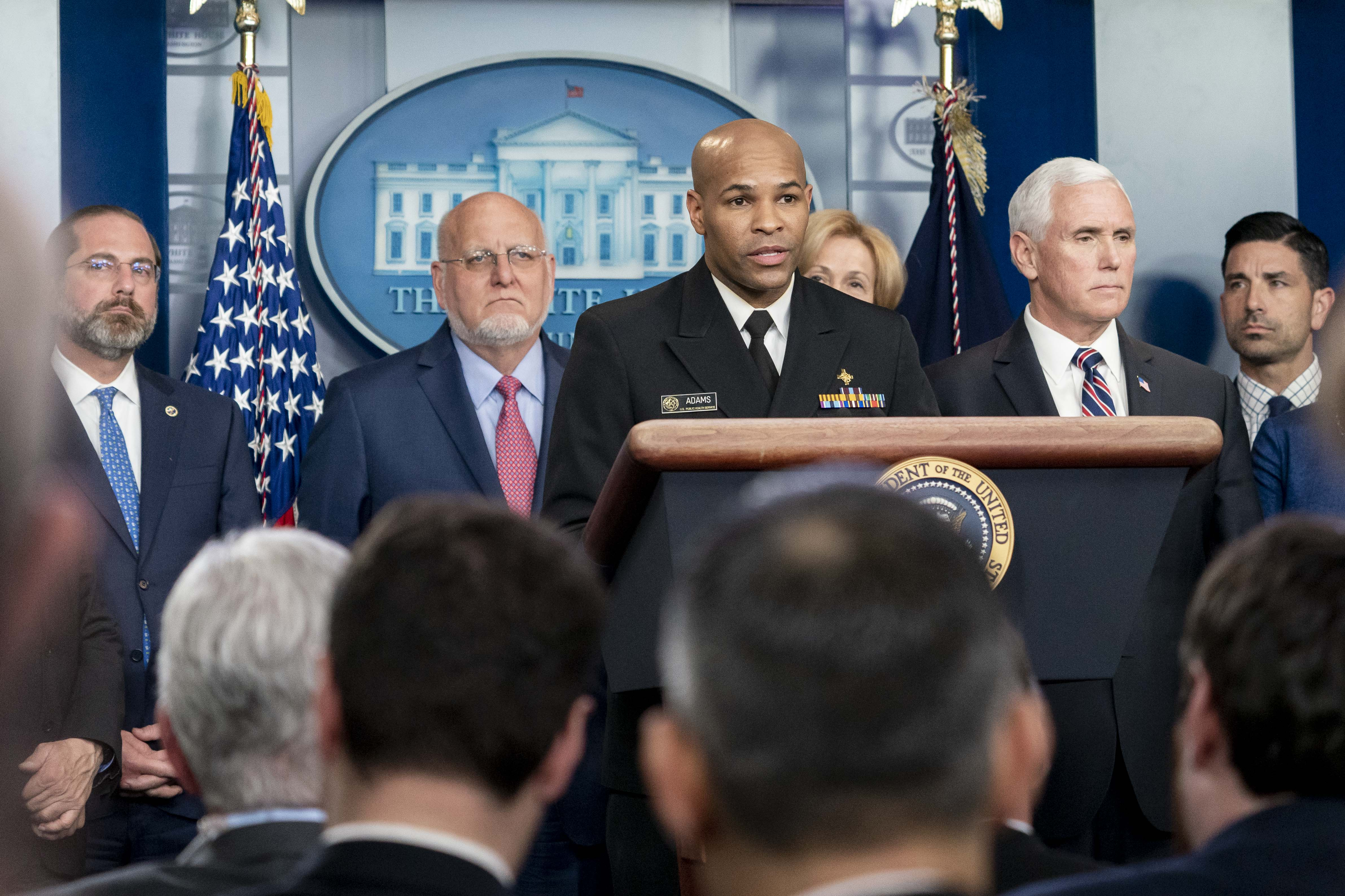 U.S. Surgeon General Vice Admiral Jerome Adams, joined by Vice President Mike Pence and members of the White House Coronavirus Taskforce, addresses his remarks at a coronavirus update briefing Monday, March 9, 2020, in the James S. Brady Press Briefing Room of the White House. (Official White House Photo by D. Myles Cullen)